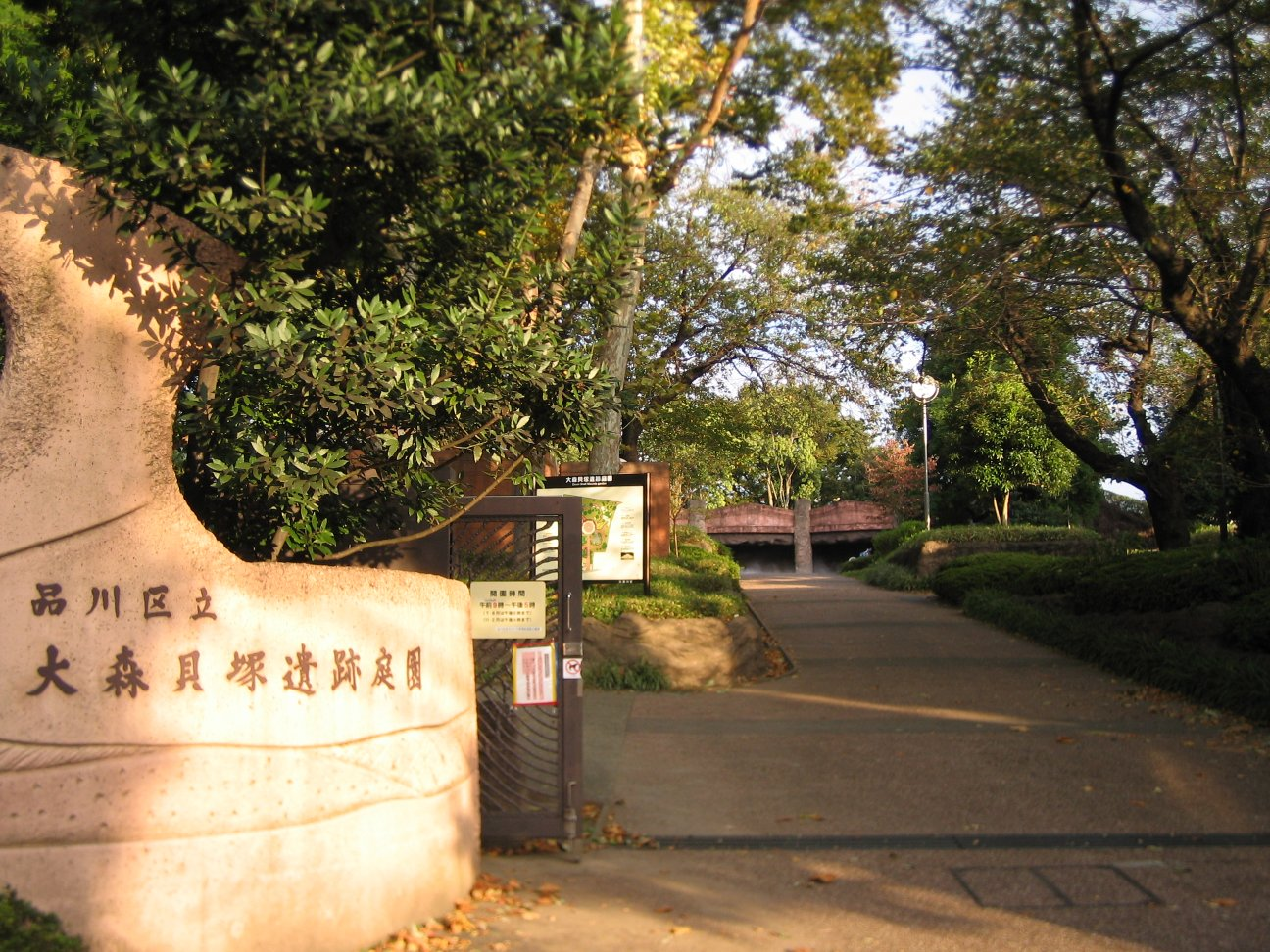 大森貝塚遺跡庭園。The Omori Shell mounds park, Tokyo, Japan.